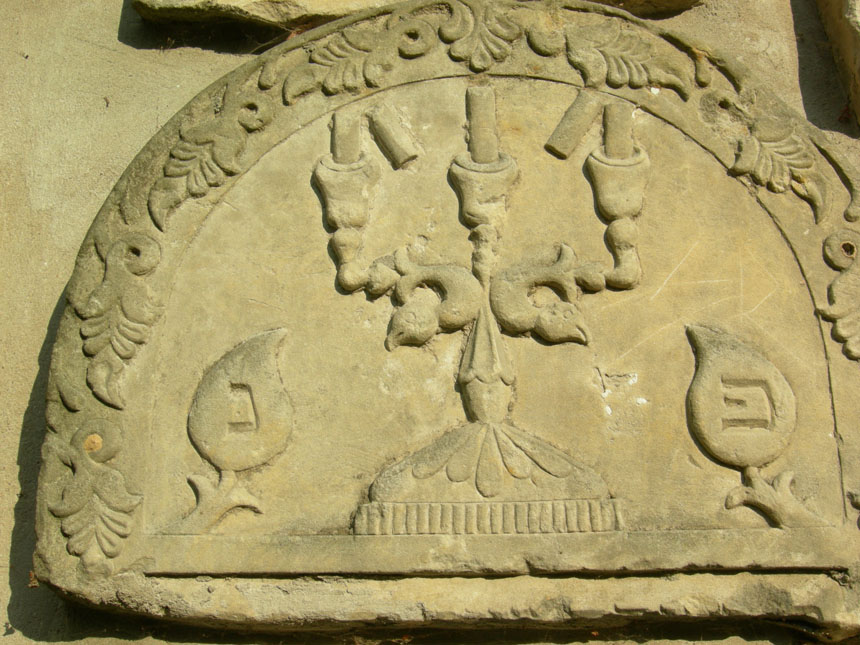 Tombstone of a jewish woman depicted by broken candles a metaphor of the end of live